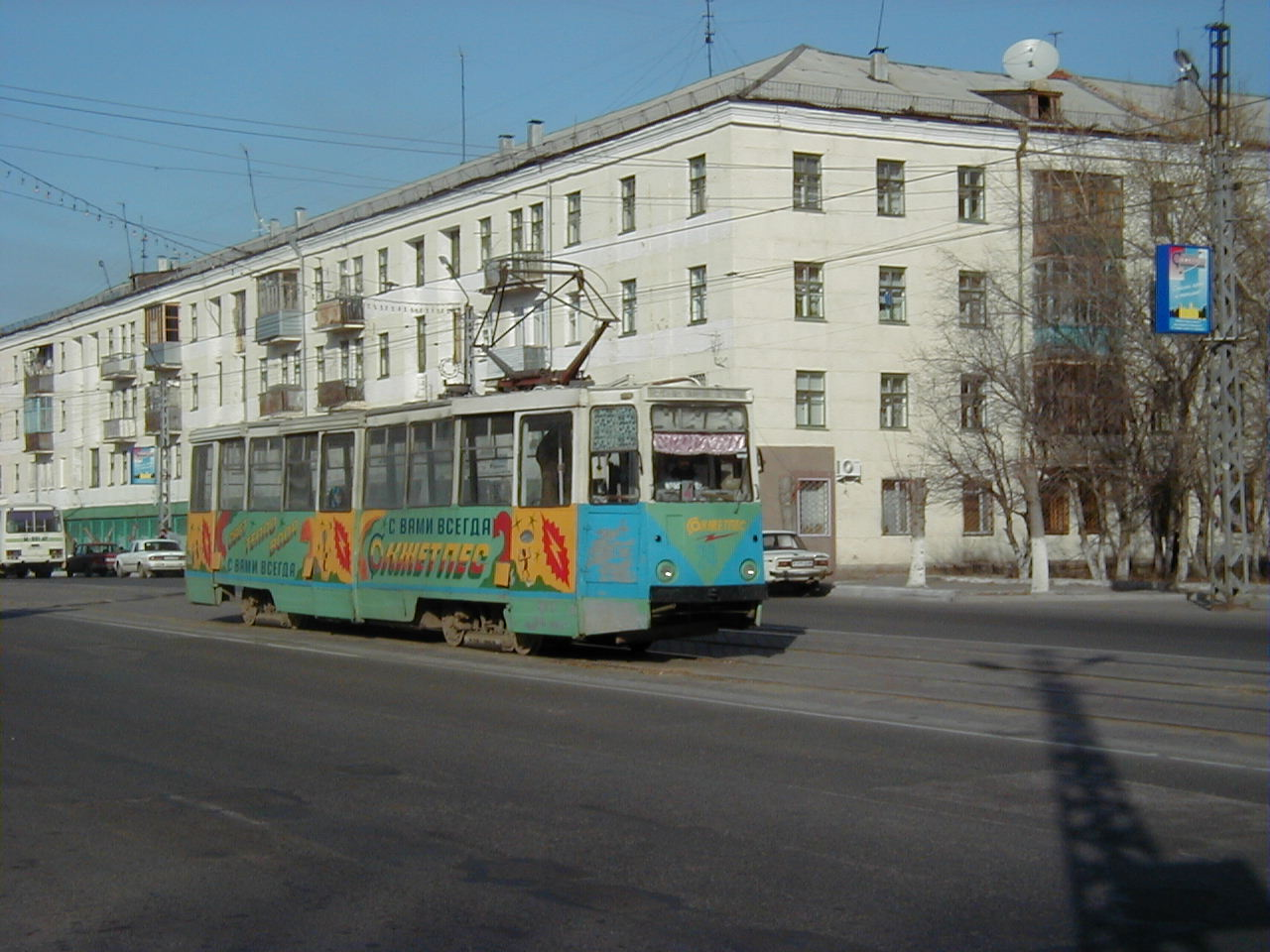 Tramway in Temirtau